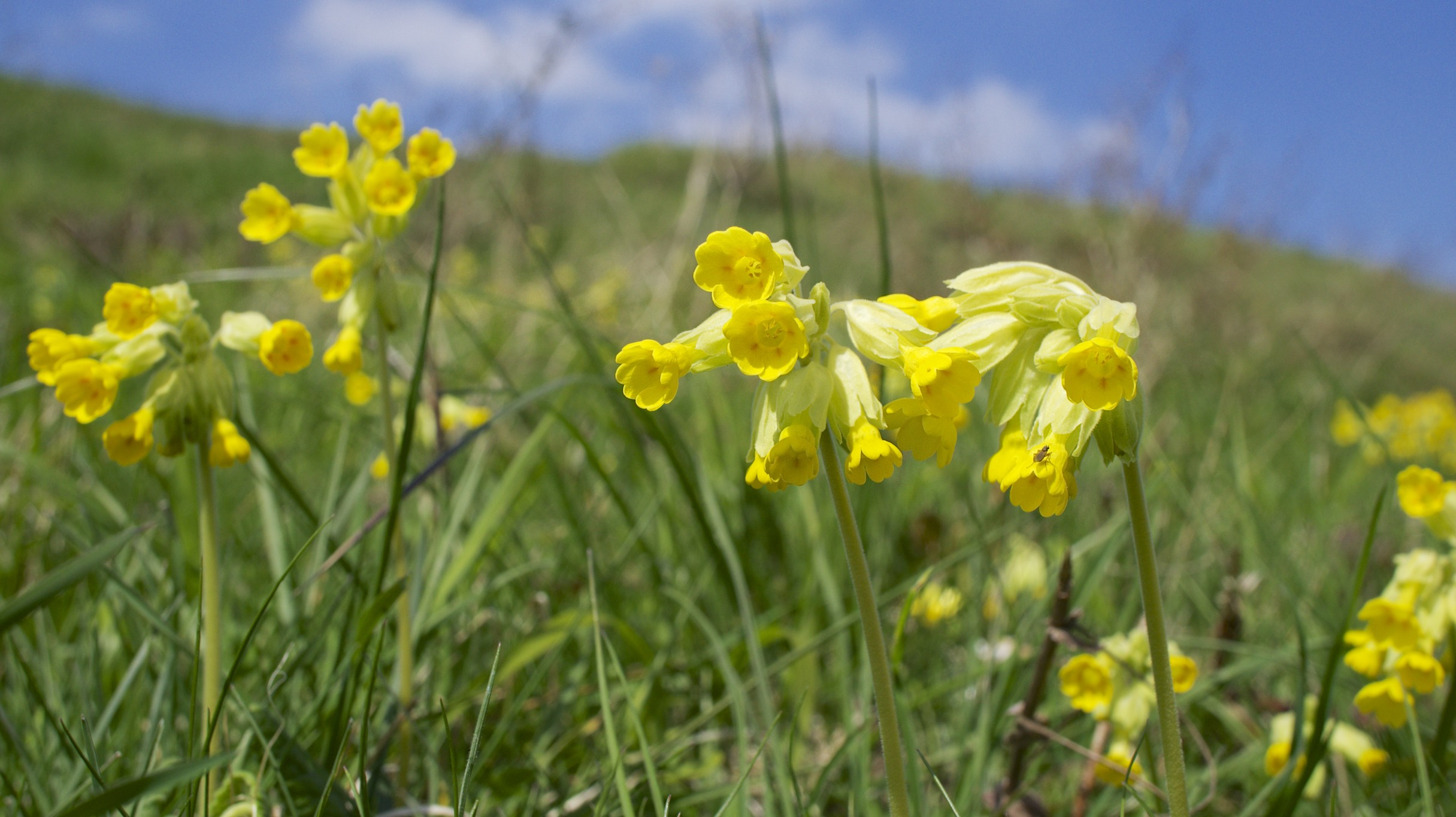 These are at Badbury Rings. A lot of our native flora is very late this year and the emerging insects are also a few weeks behind.